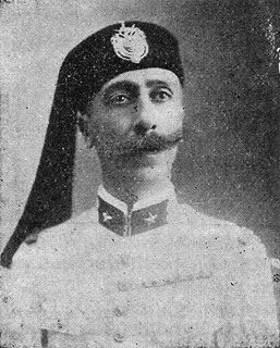 Mohamed Lamine Bey (1881-1962) when he was young, Bey of Tunis (1943-1957).